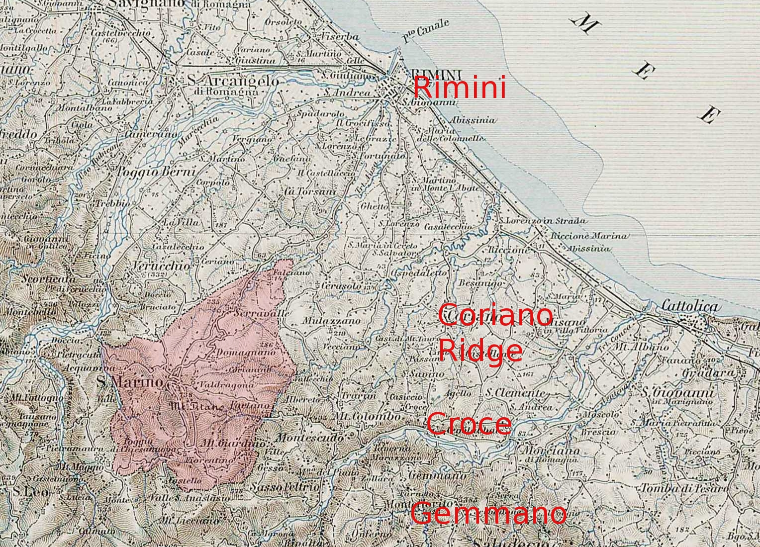 Derived from the Ravenna sheet of the 3rd Military Mapping Survey of Austria-Hungary (1904). Shows San Marino and some major locations emphasised in red, to help provide context for an article discussing the Battle of San Marino.